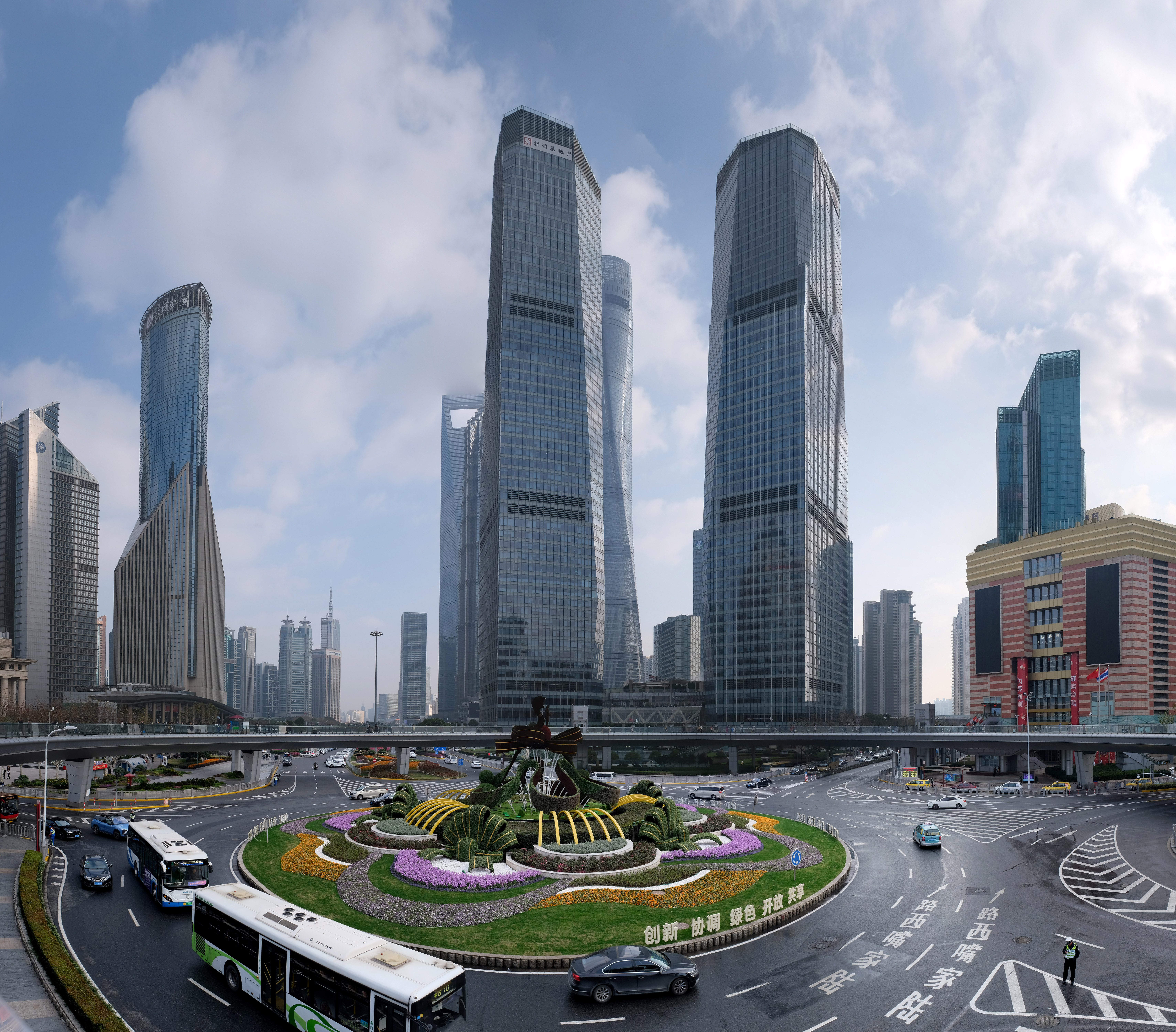 Roundabout in Lujiazui